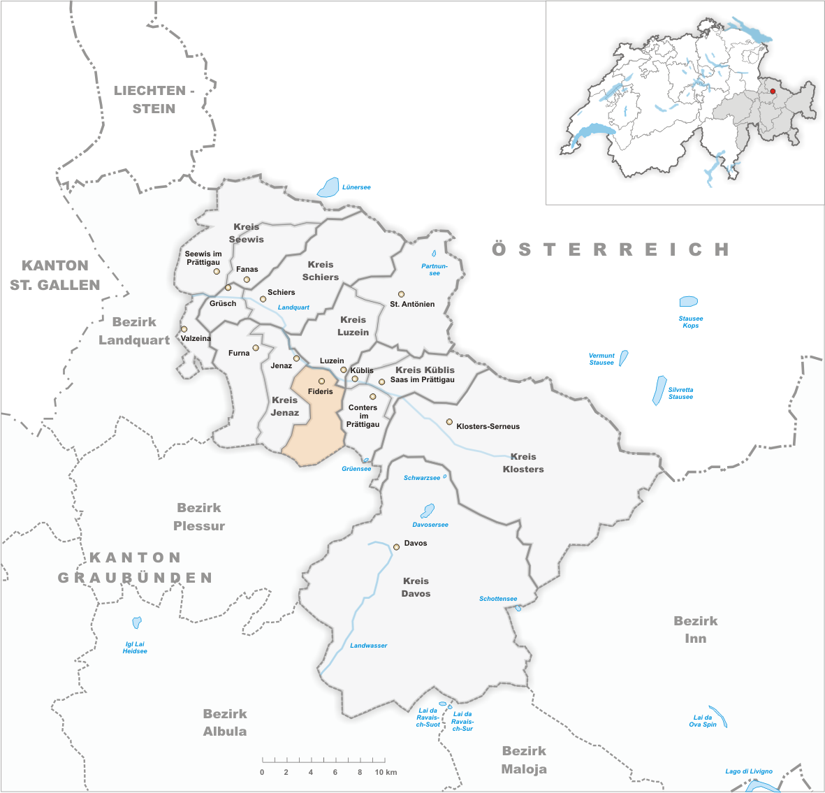 Municipality Fideris